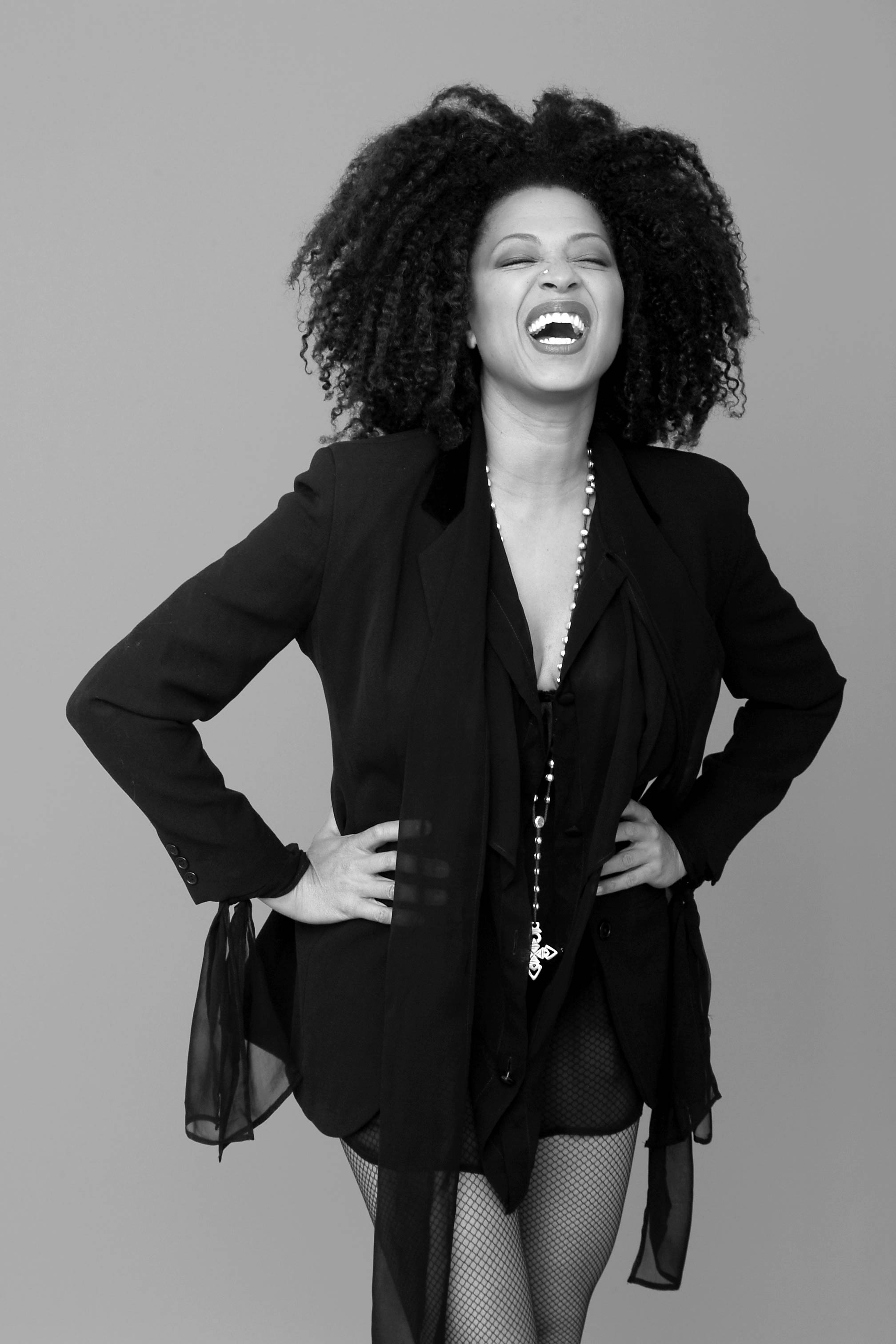 black and white photo